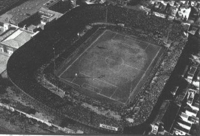 Estadio Gasómetro de Avenida La Plata. Ciudad de Buenos Aires. República Argentina